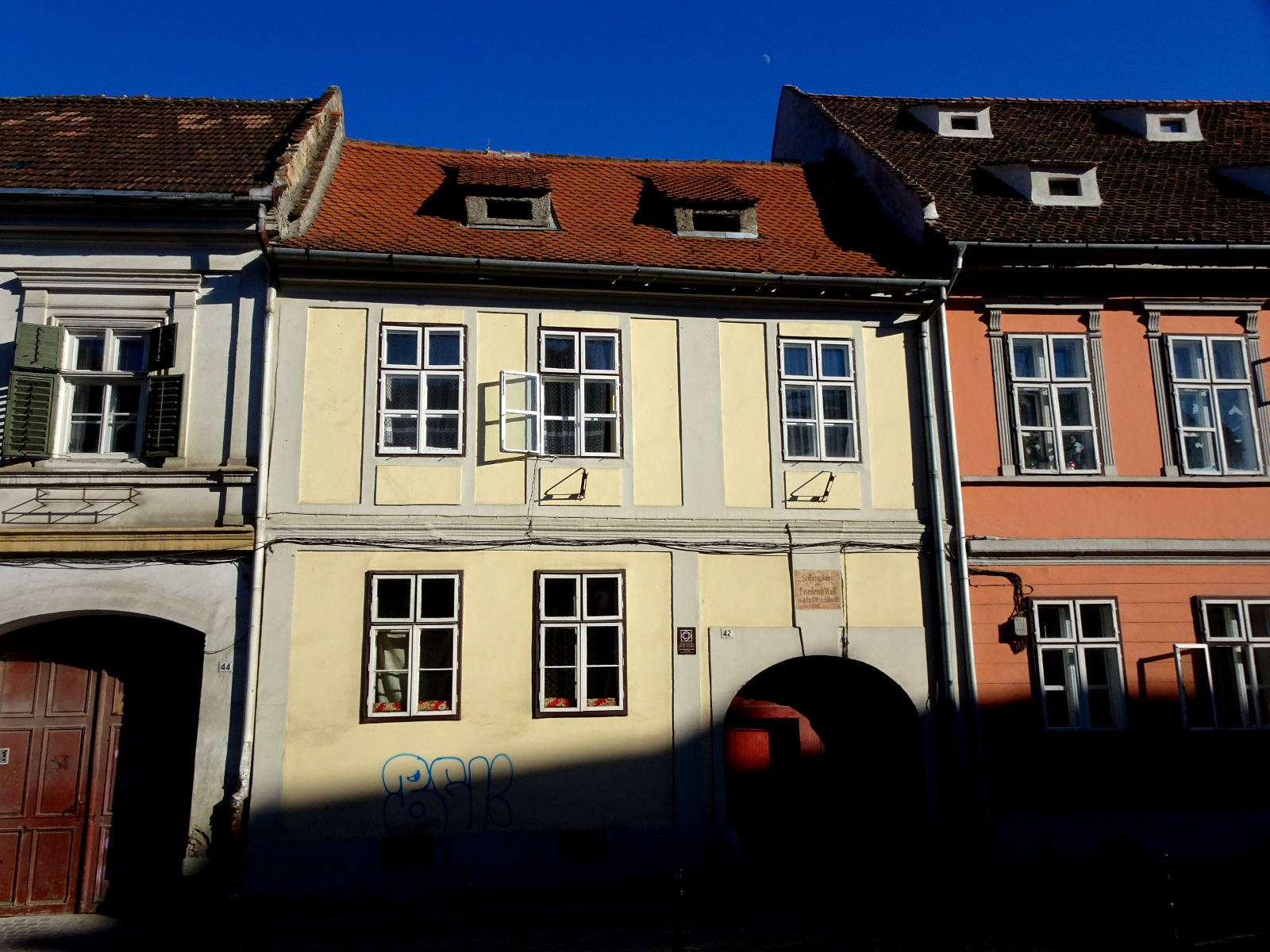 House in Bălcescu street, Brașov